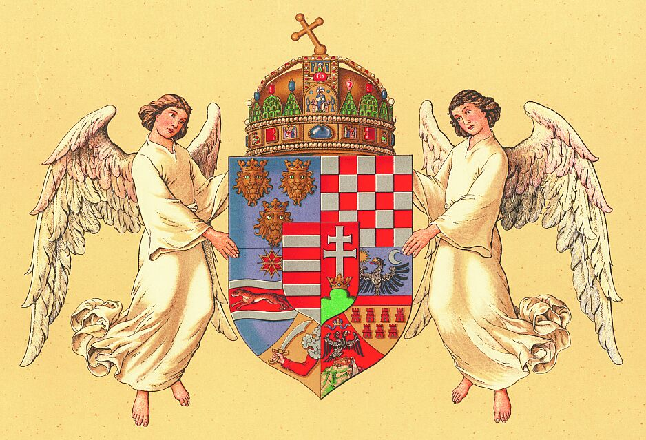 Crown of Hungary, Austria-Hungary 1915